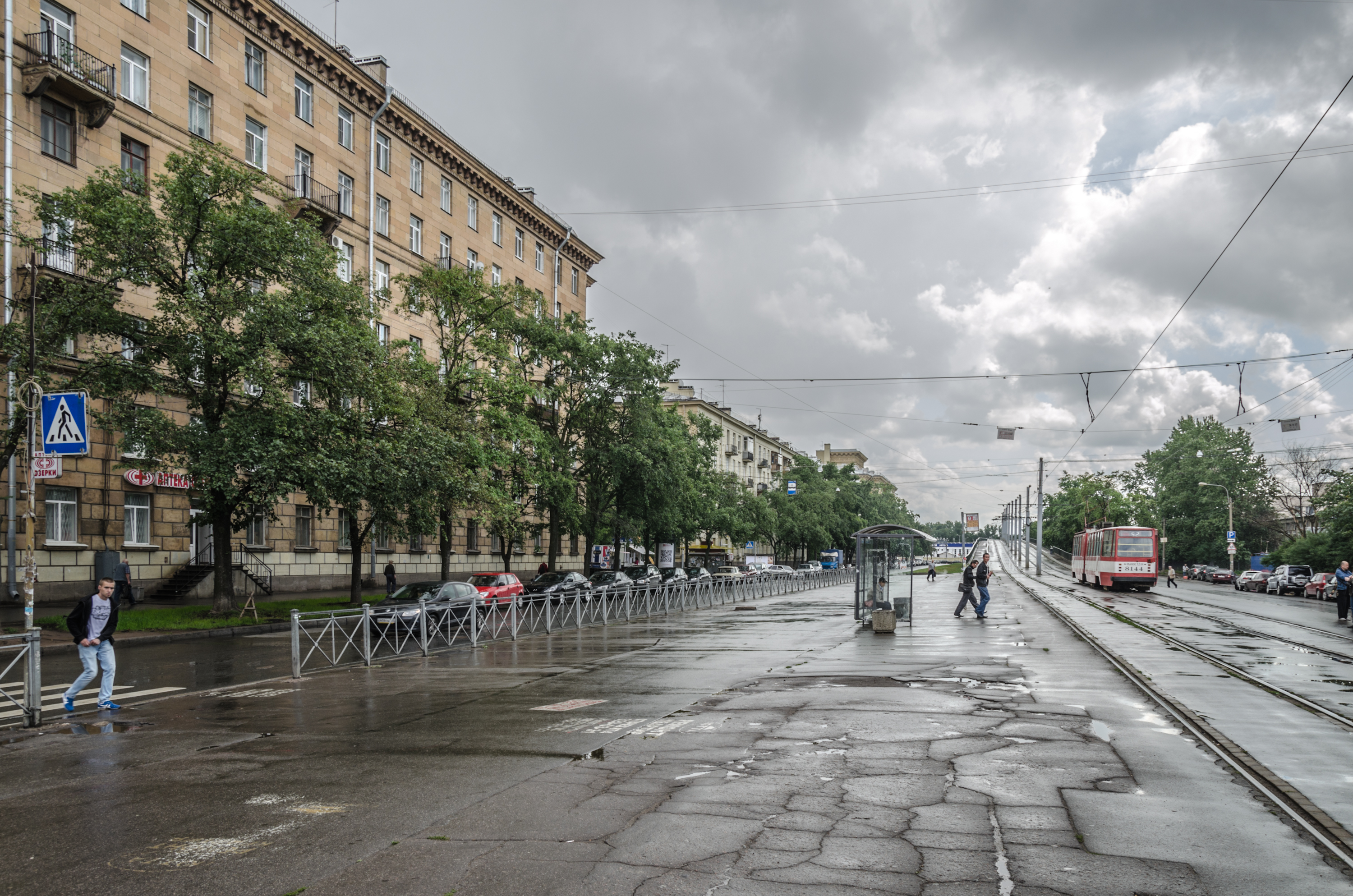 Kronshtadtskaya street in Saint Petersburg, Russia